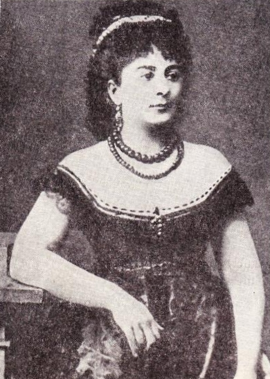 Viorel Cosma, Elena Teodorini,Editura Muzicala, 1962